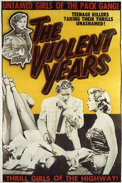 Original poster to The Violent Years (1956). Public domain explanation The image was published as an advertisement in the U.S. in 1956. There is no evidence that copyright notice was originally filed on the image, as then required. For instance, this image evidently shows the entire poster and no copyright notice. A search of U.S. copyright renewal records both generally and with a specific focus on 1986 and 1987 reveals no evidence that either Headliner Productions or any asignee renewed copyrights to this poster or any collection of posters or any collection of material that might encompass this poster as would have been required to maintain copyright protection, if any. There is no evidence that any current heir or asignee of Headliner Productions claims copyright on the image.